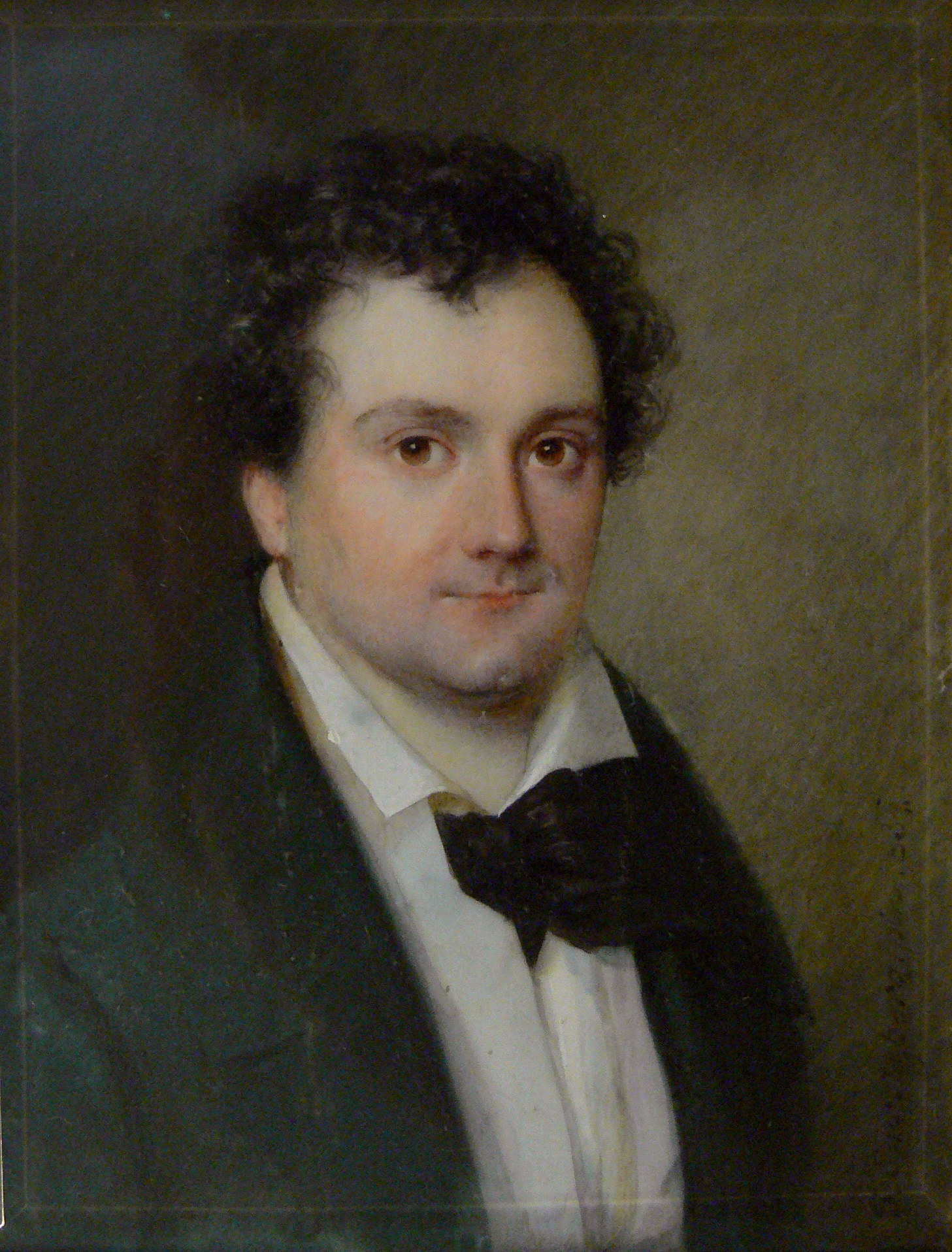 Portrait of Johann Nestroy